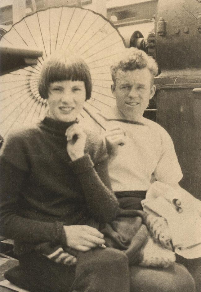 25-year-old Claude Choules and his 21-year future wife Ethel aboard SS Diogenes